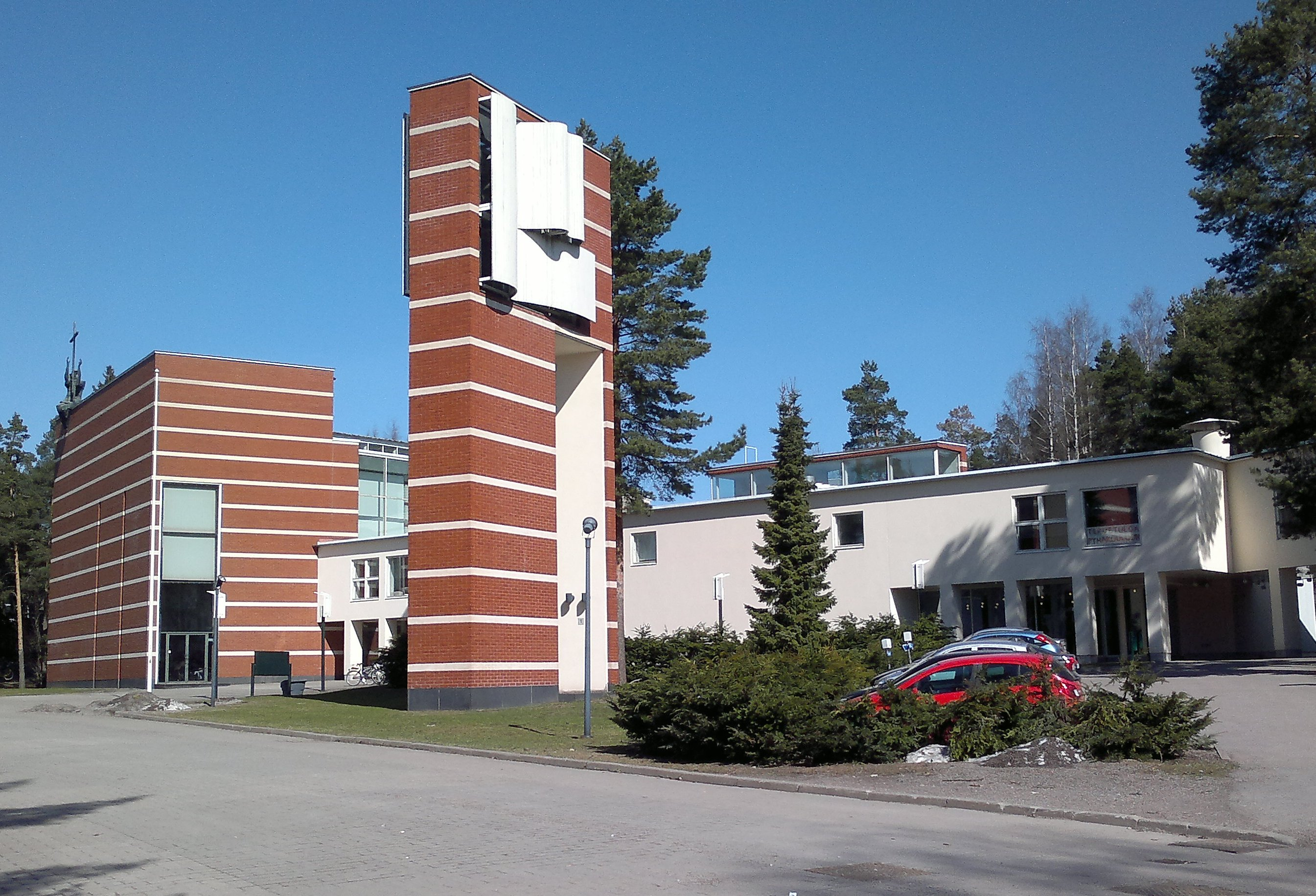 Saint Michael's Church in Kontula, Helsinki